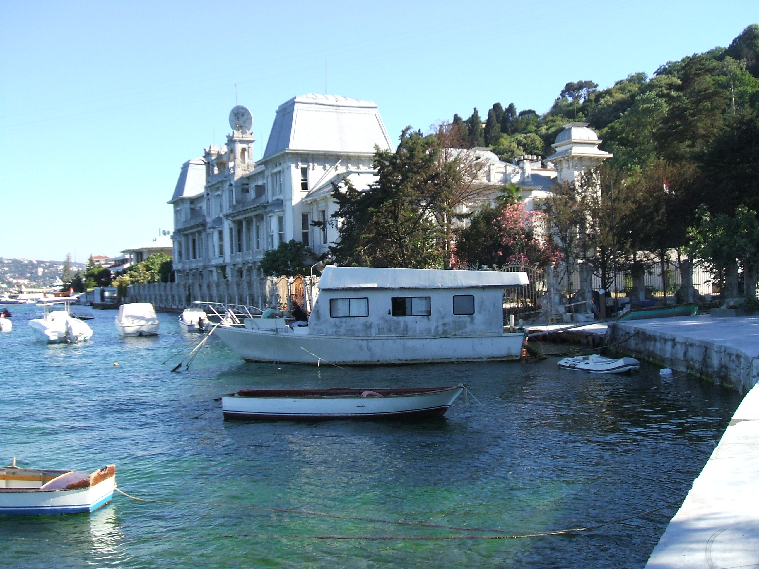 Egiptian consulate in Bebek, Istanbul